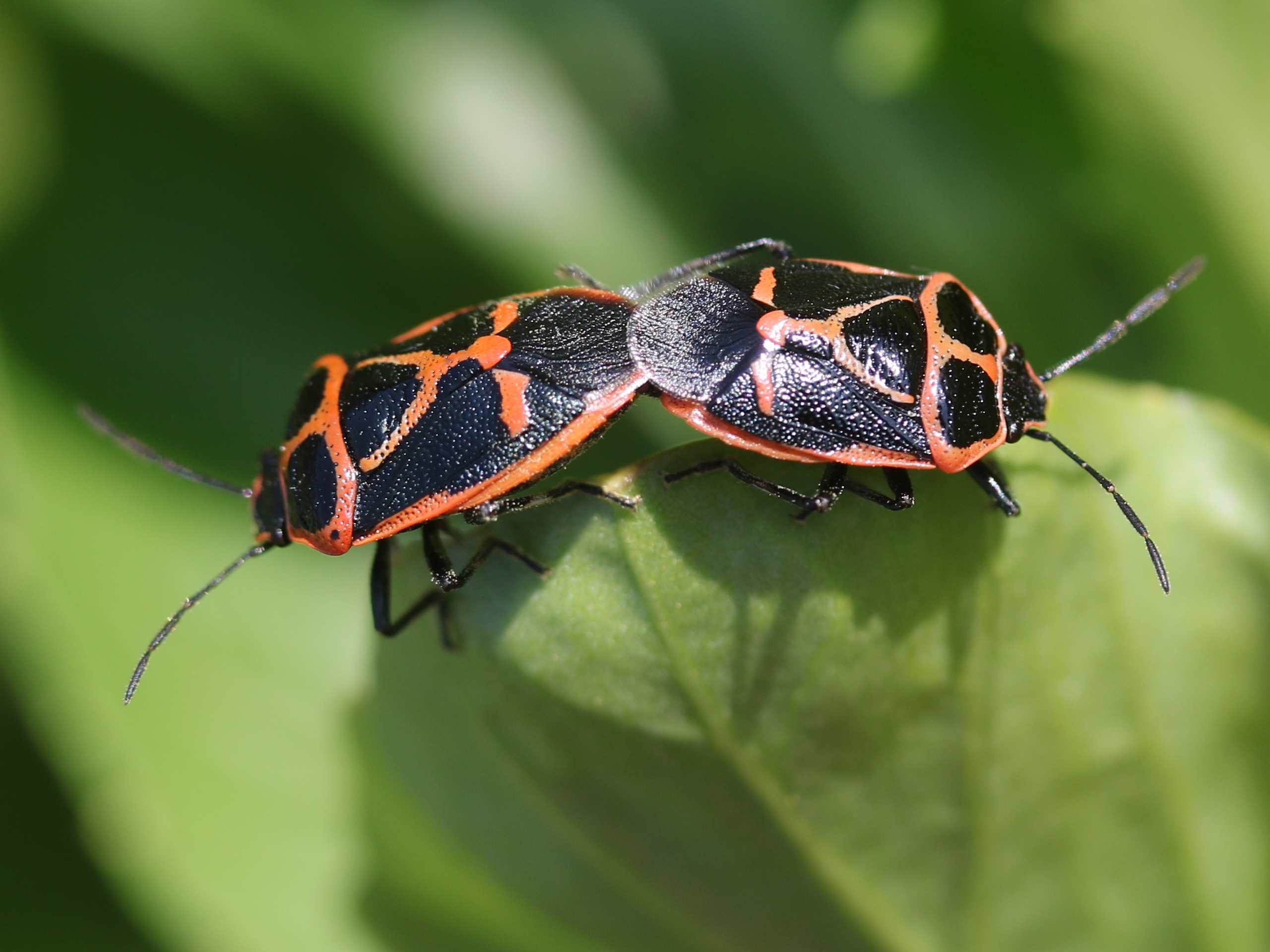 Eurydema rugosa mating in Mount Ibuki, Ibigawa, Gifu prefecture, Japan.